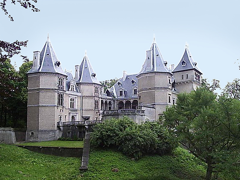 Palace in Gołuchów, Poland